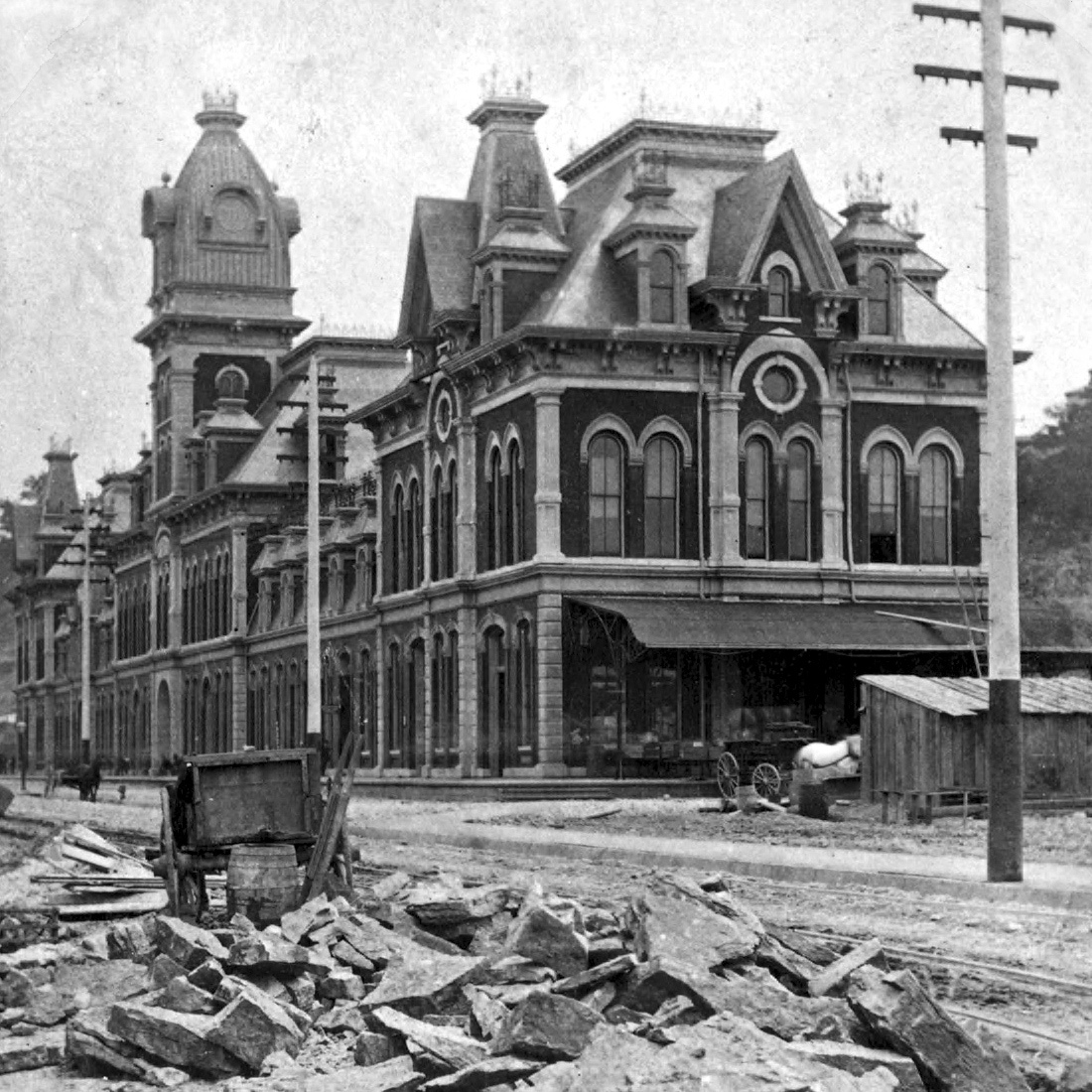 Union Depot in Kansas City, which opened in April 1878 in an area of the city now known as West Bottoms. Following a flood it was replaced by Union Station in 1914.